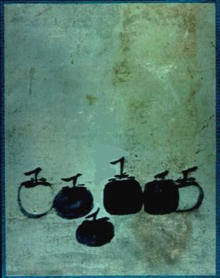 Six Persimmons